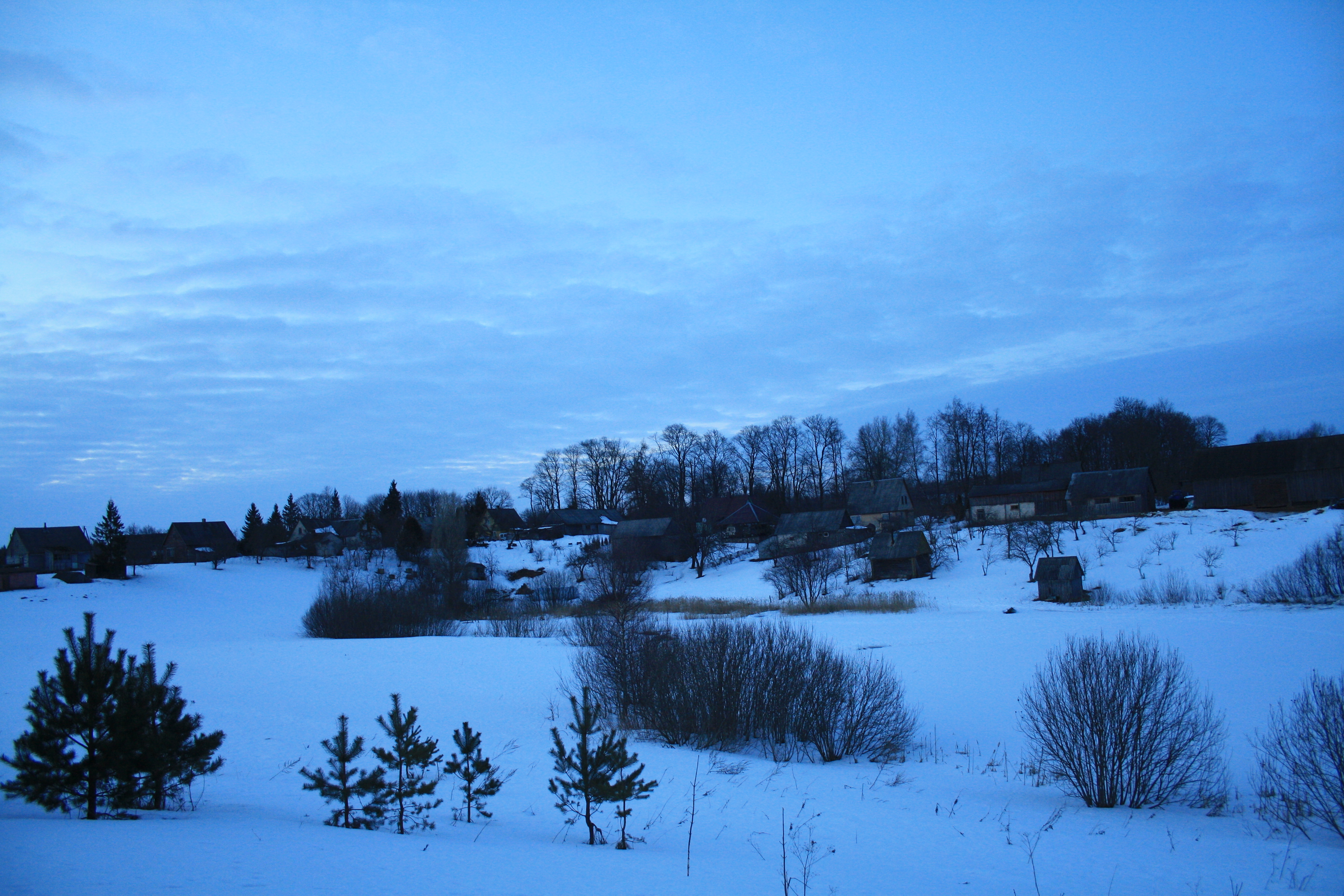 Kamajeliu kaimas